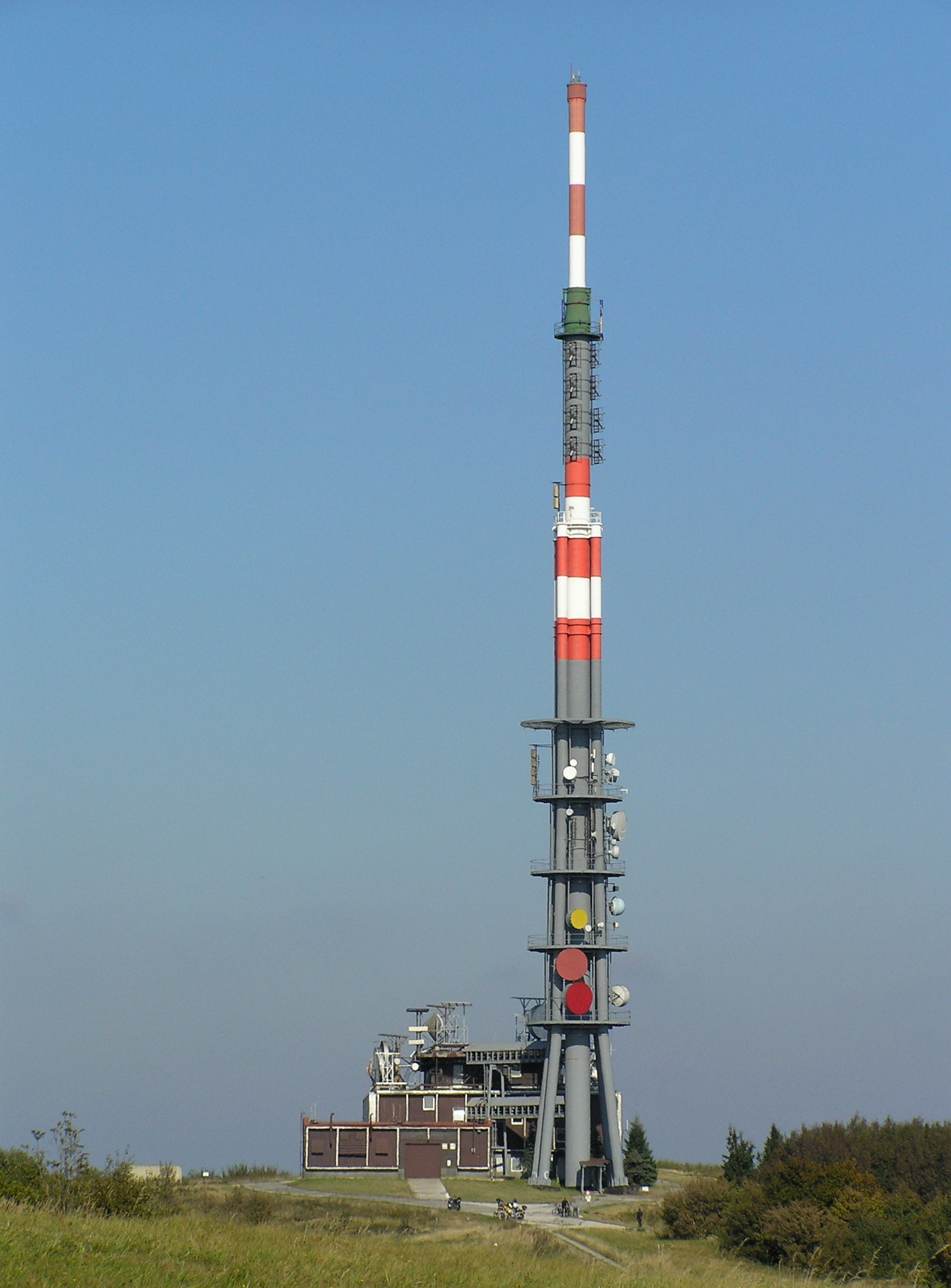 Veľká Javorina, peak meadow and transmitter building, September 2008